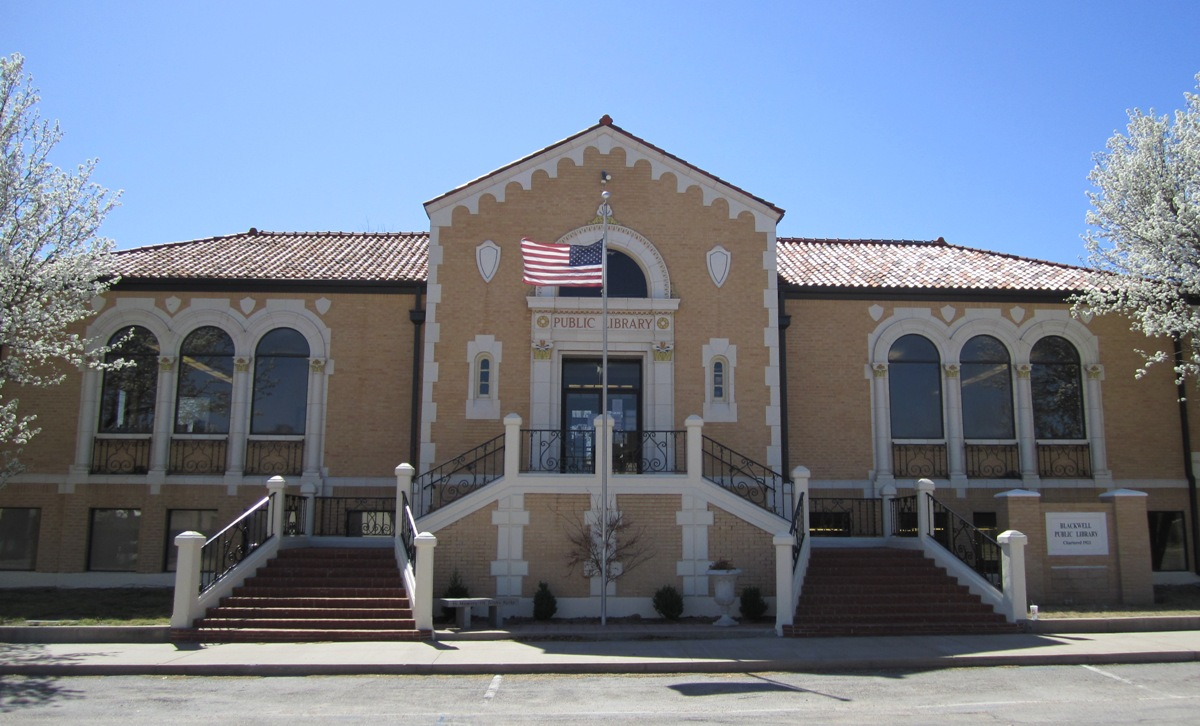 A photo of the Blackwell,Oklahoma Public Library